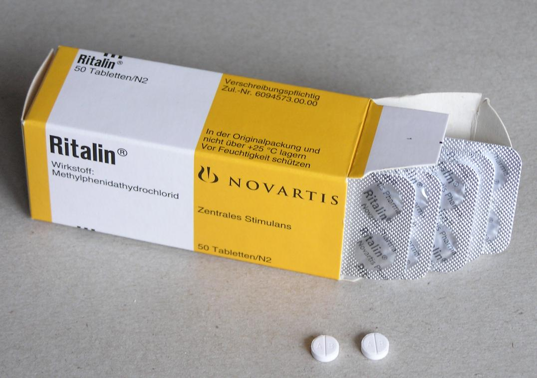 German Ritalin (Methylphenidat) Zul.-Nr. 6094573.00.00